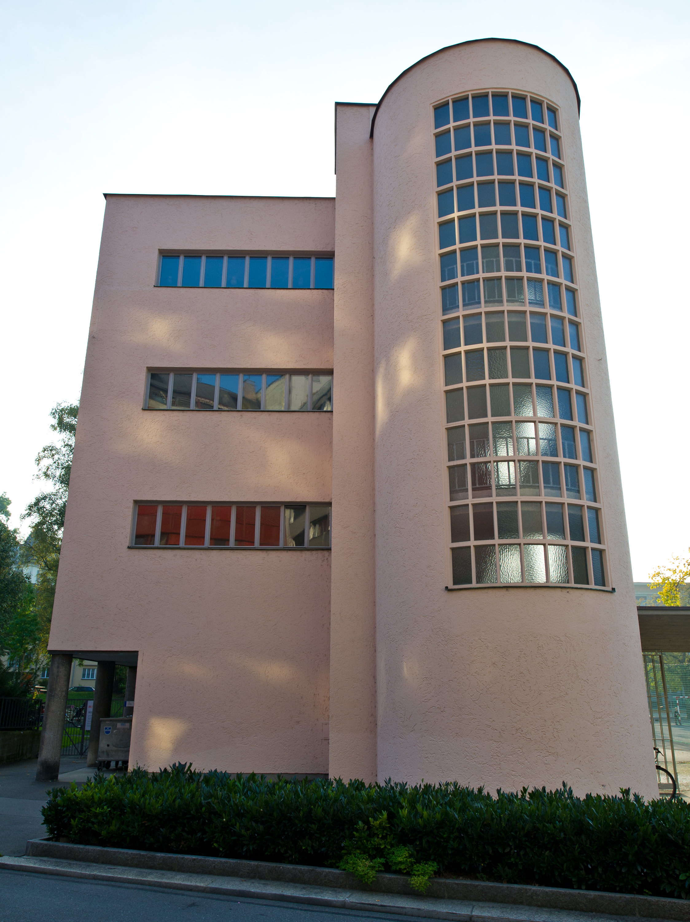 Dula school building, Lucerne, LU, Switzerland.